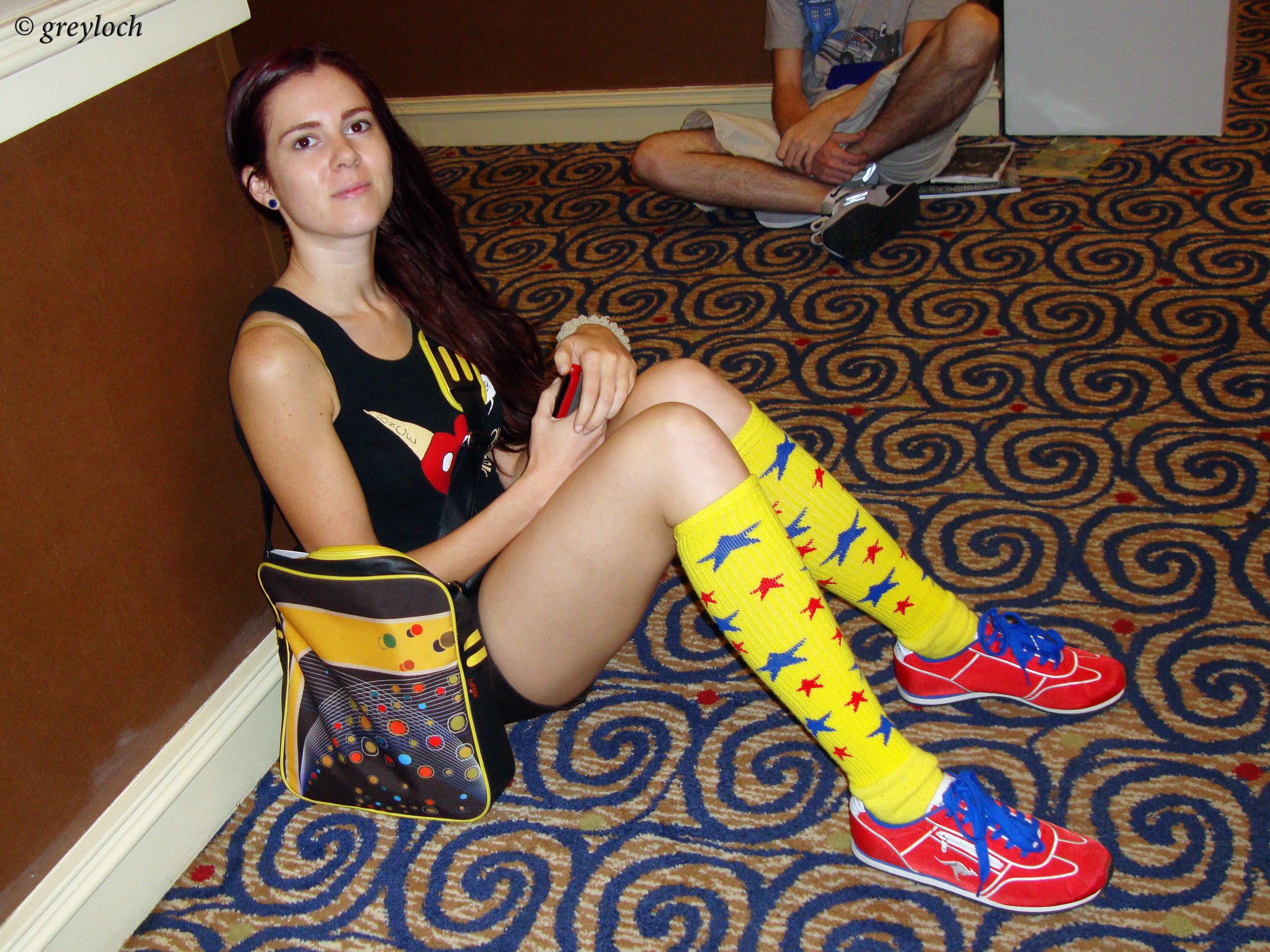 Probably the most famous person I met at the con and I didn't even know who she was. Isobel Wren has done some impressive photoshoots & movies for Penthouse and other publications along with regular modeling gigs. I just thought she was incredibly cute in the rockin' yellow socks and I asked to take her picture. 'Cause that's what I do at Dragon*Con. *grins* I also recognized where she got her shirt (Something Positive) and we talked a bit about that.